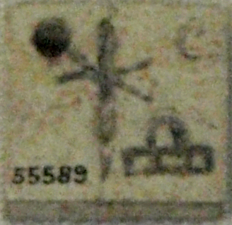 Bone label with name of Queen Neithhotep. Other side has the number 135. Originally from Naqada, circa 3100 BC. Part of the MacGrego Collection in the British Museum, EA 55589.